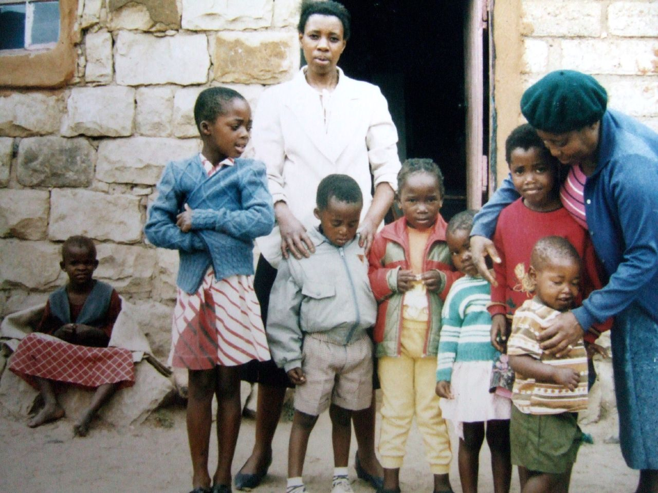 Children outside a building in Lesotho.